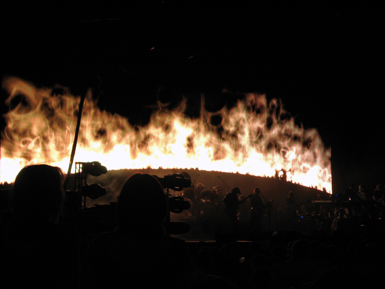 Roger Waters plays "Set the Controls for the Heart of the Sun" on his "Dark Side of the Moon" tour in Tampa, Florida, on May 19, 2007. Photograph taken by Googie Man, while he attended this show.